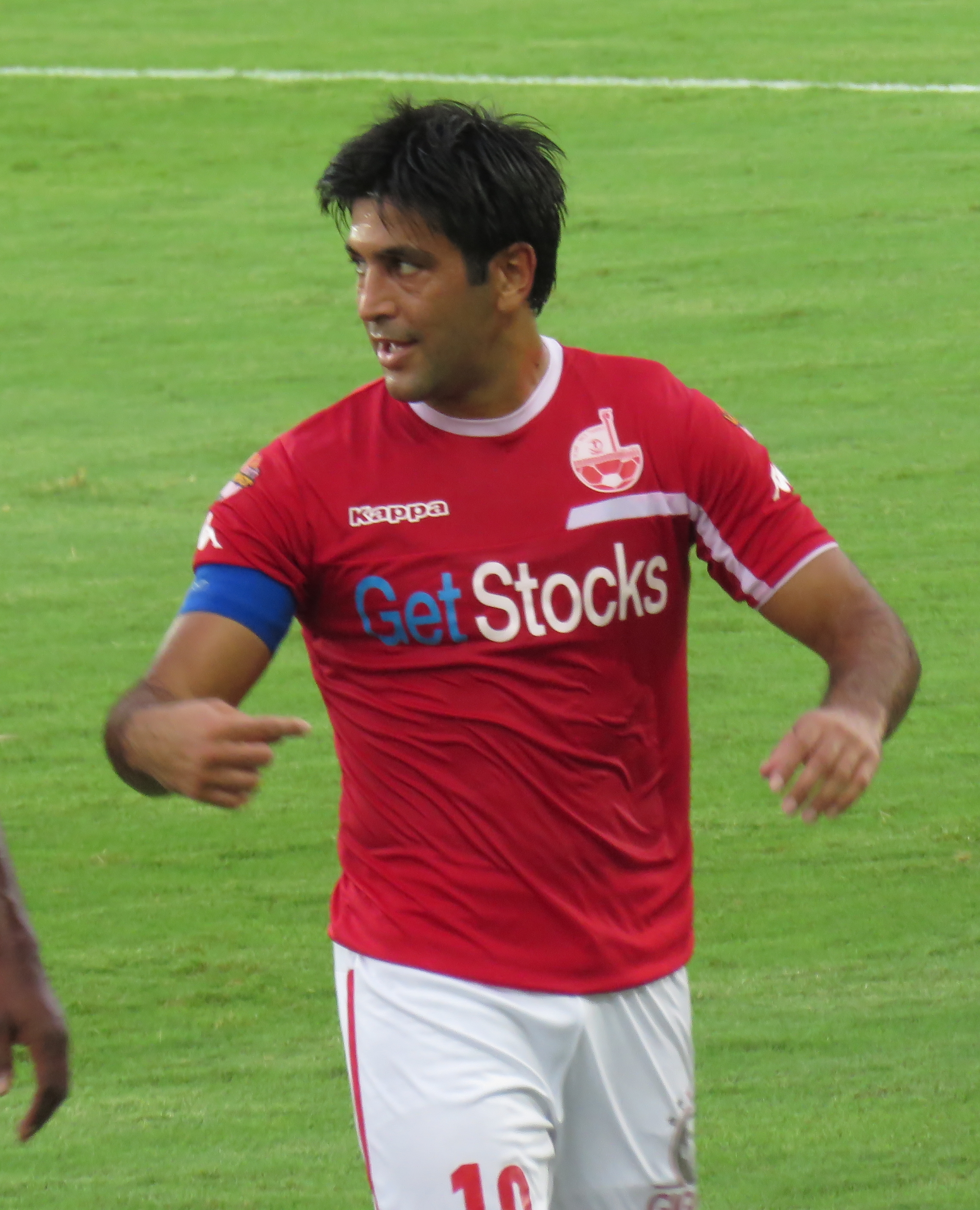 Hapoel Ra'anana vs. Hapoel Be'er Sheva - September 12, 2015